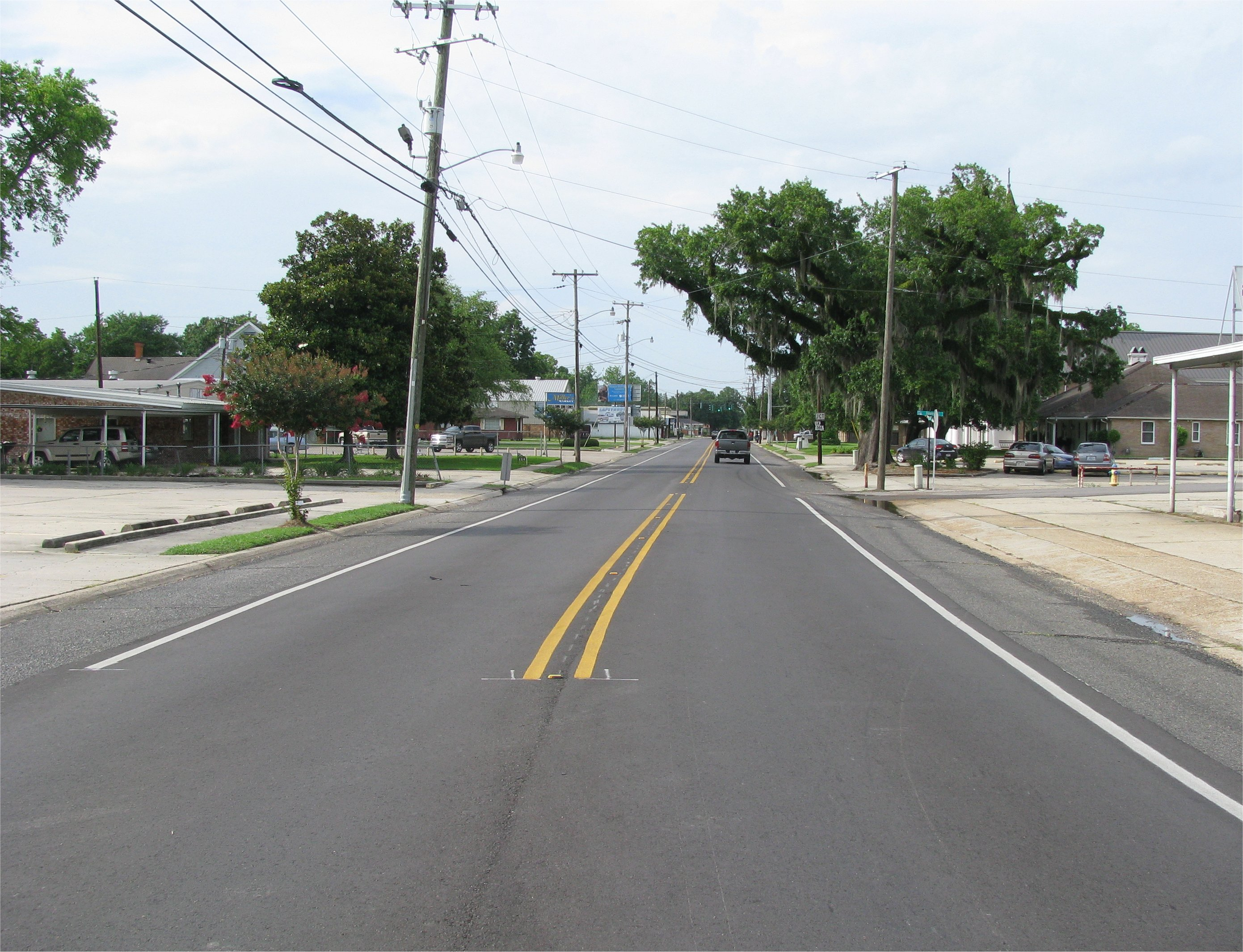 Main Street, looking North towards the Village center, Loreauville, Louisiana, USA